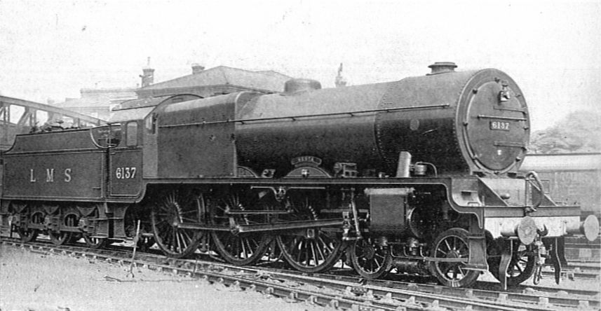 British Express Engines for Heavy Passenger Service 3-Cylinder 4-6-0, Nº 6137 "Vesta" ("Royal Scot" Class) LMSR